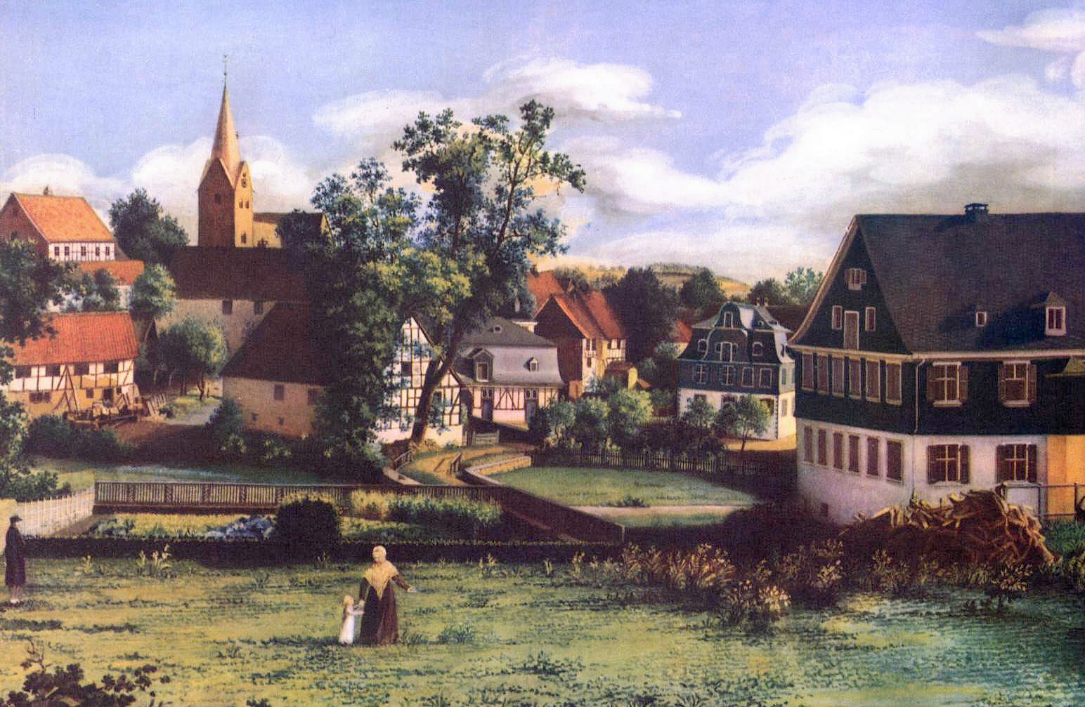 Watercolor from 1807 of Old-Gummersbach